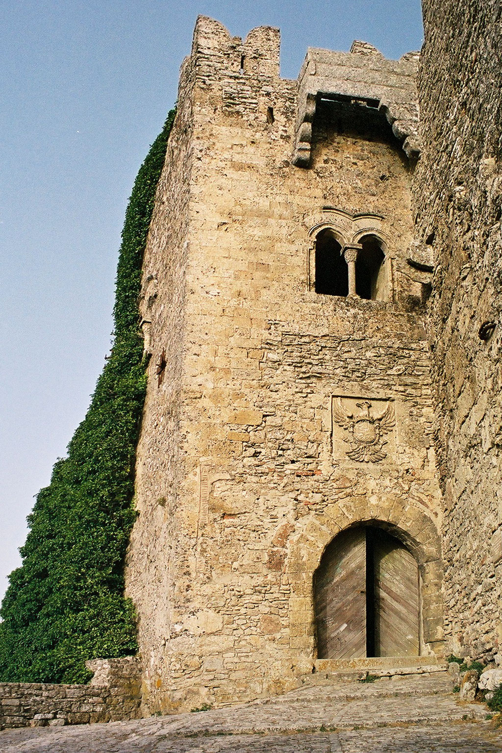 Norman castle, Erice Main entrance with emblem of Charles V